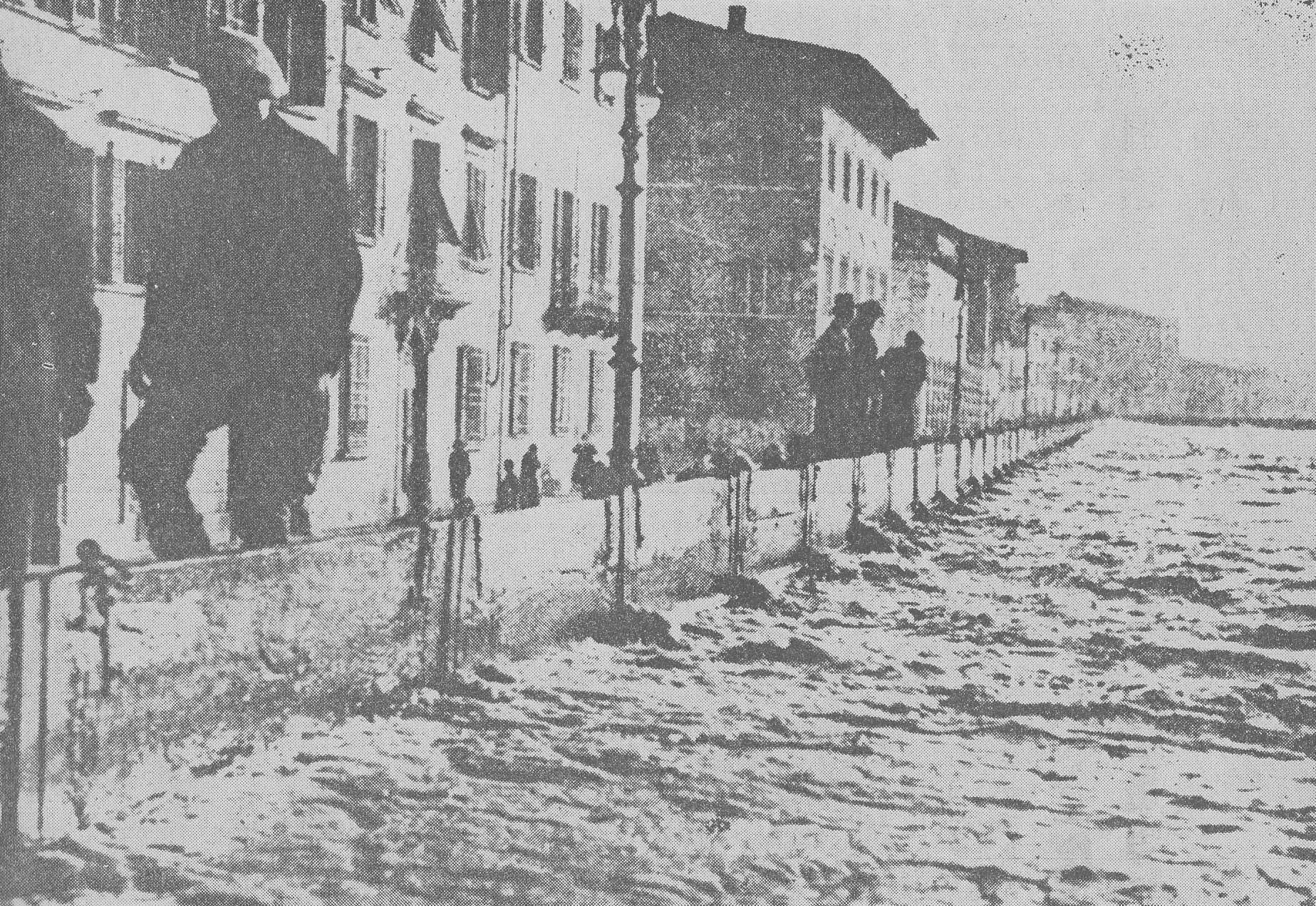 Lungarno Mediceo during the flood of 1937 in Pisa, Tuscany, Italy.